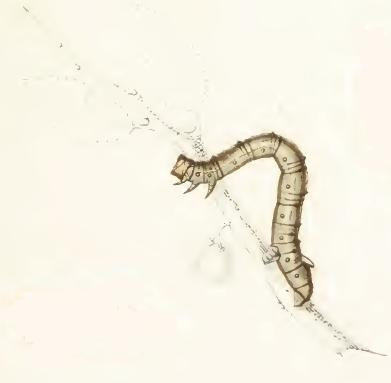 Iconographie et description de chenilles et lépidopteres inédits: Crocallis tusciaria